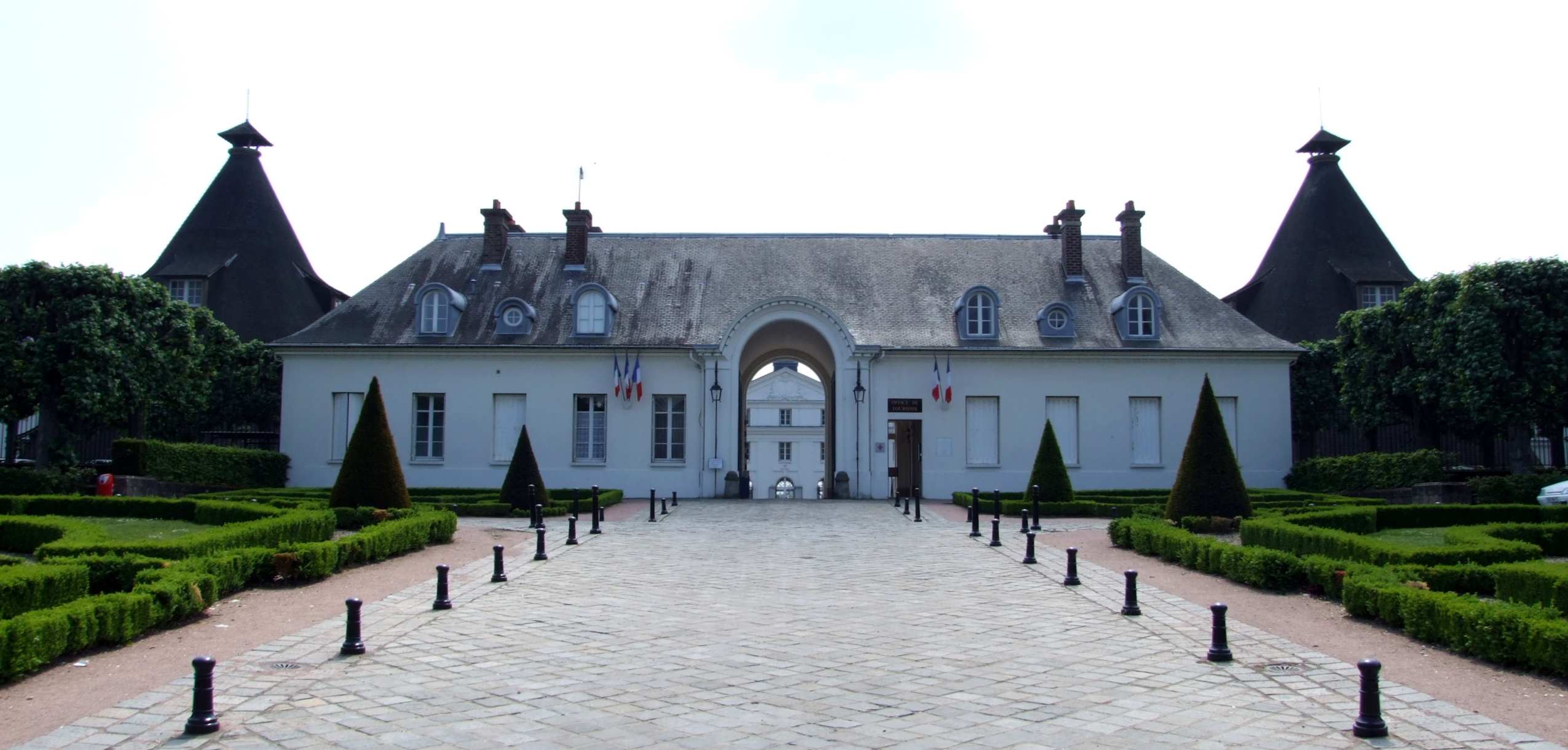 Le Creusot, Burgundy, FRANCE